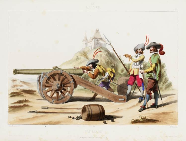 French Infantry of 1830: Artillery